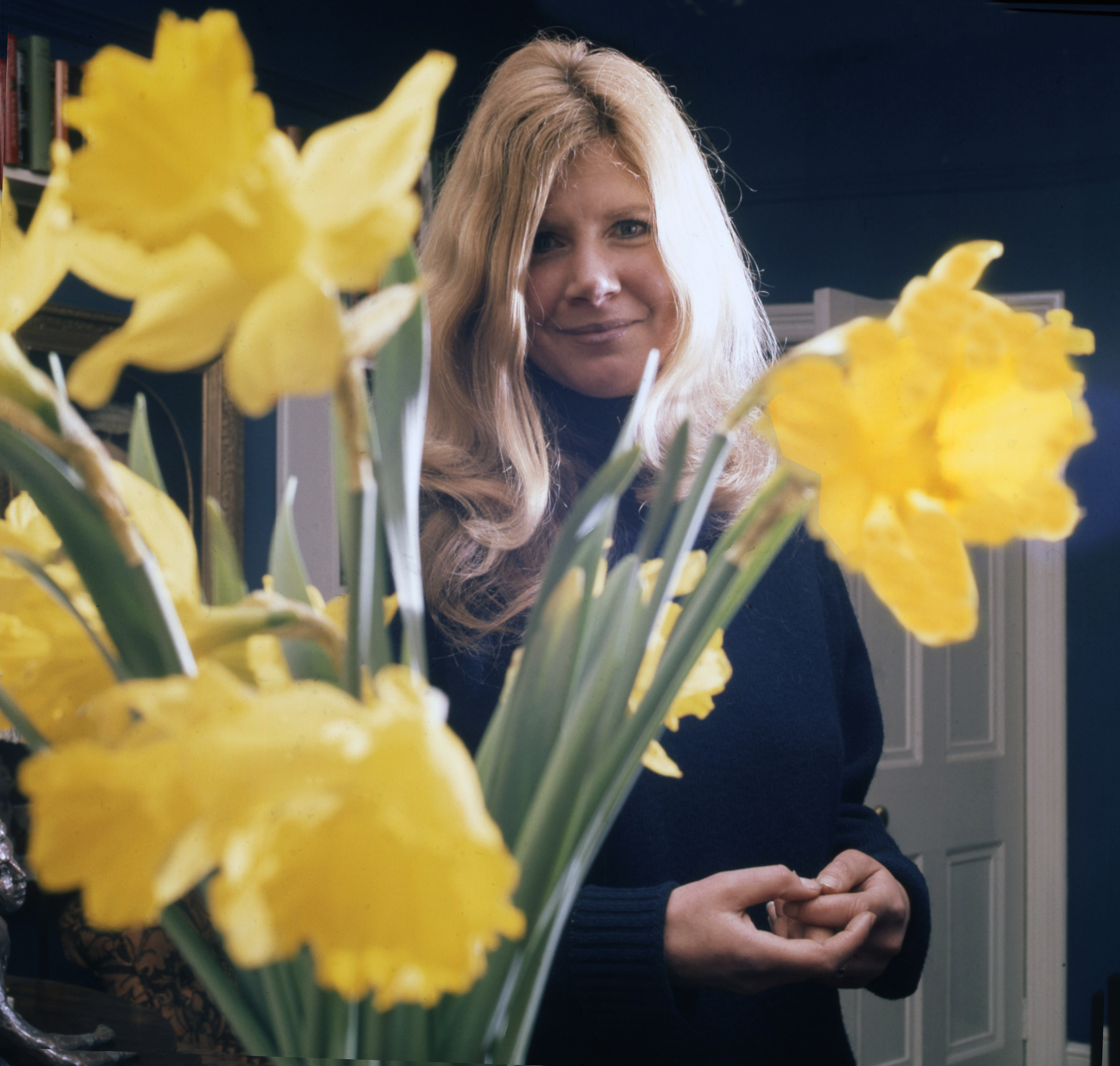 Jilly Cooper at home in London